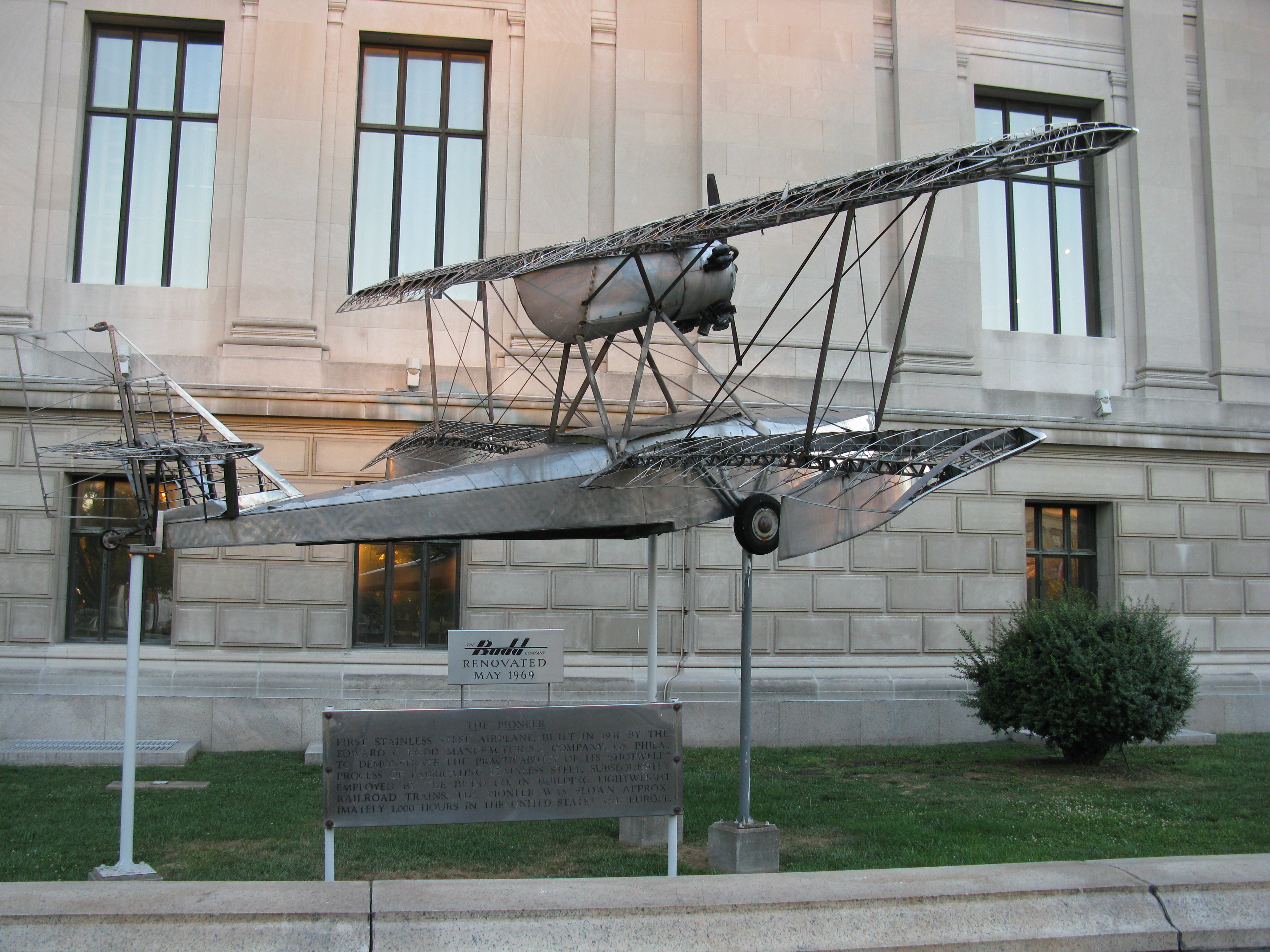 The Budd BB-1 Pioneer airplane in front of the Franklin Institute in Philadelphia, PA. It was designed by Enea Bossi of the Budd Company, and was the first stainless steel aircraft ever built. It has been on display in front of the Franklin Institute since 1935.